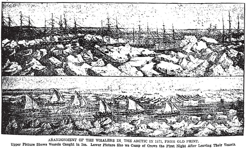 The Whaling Disaster of 1871